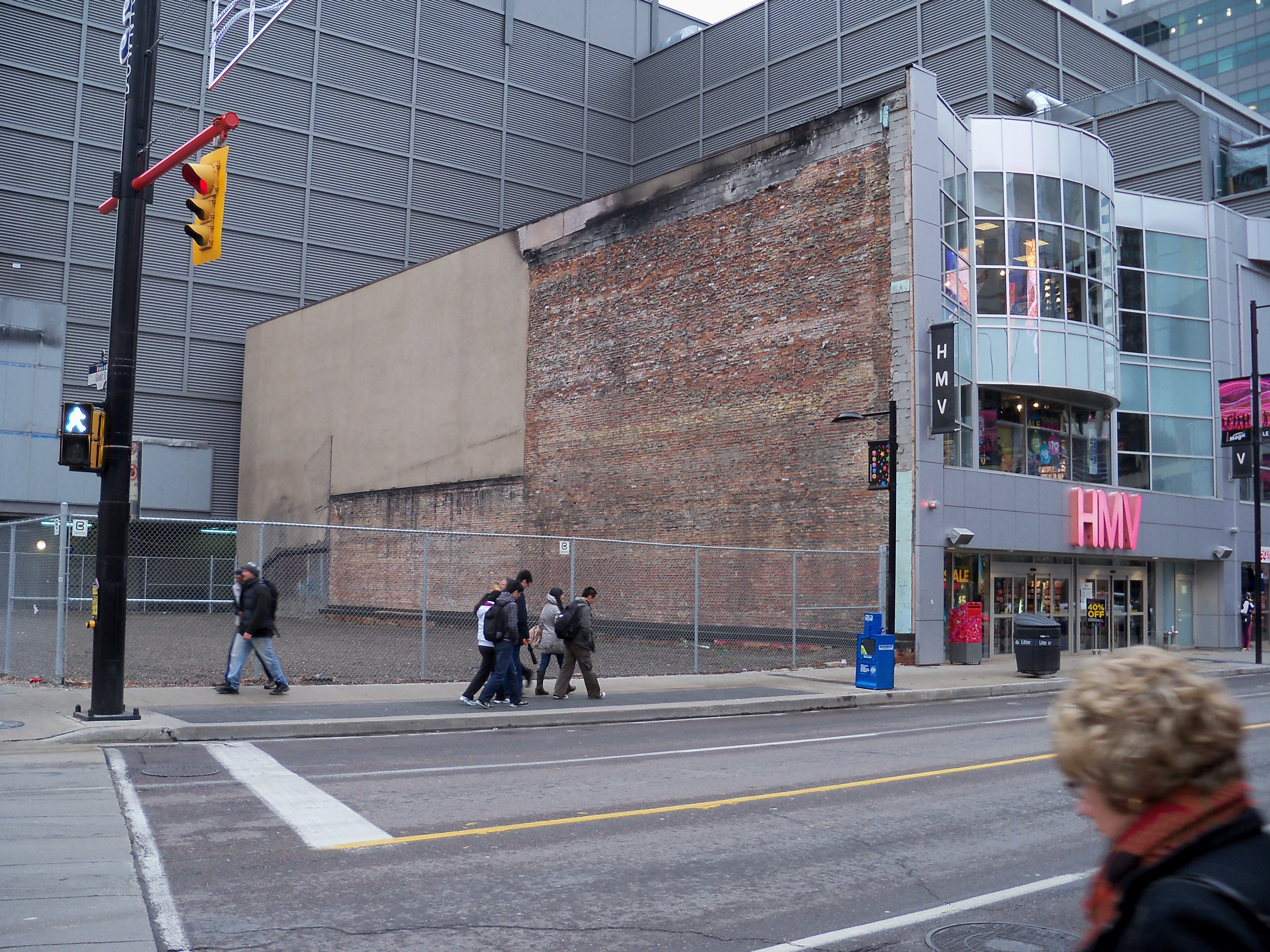 Site of a historic old building, on Yonge Street, once the fire-damaged remains of the building were removed. On the ground floor, on the Gould Street, Toronto side, was an Indonesian restaurant, named the "Salad King". Diners were asked to choose how hot they wanted their food on a scale of zero to ten chilis. Most patrons were from nearby Ryerson University.